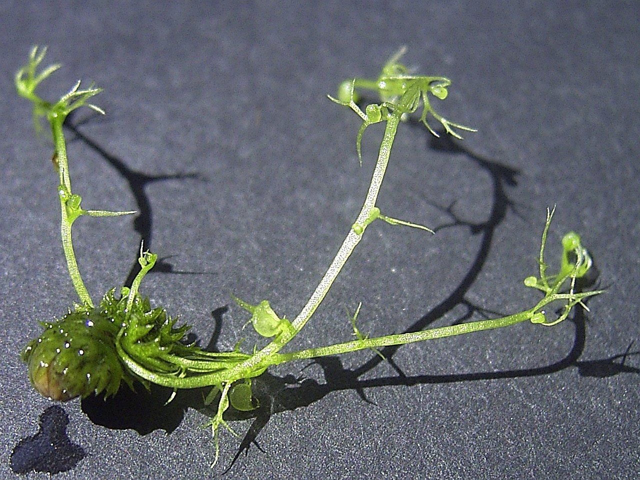 Utricularia bremii hibernacle sprouting Author: Denis Barthel